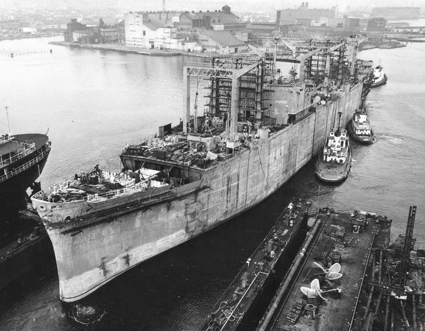 The fully assembled U.S. Navy fleet oiler USS Caloosahatchee (AO-98) undocking on 6 August 1968 during her "Jumbo" conversion at the Bethlehem Steel Co., Baltimore Yards, Maryland (USA). In a series of dockings and undockings, the stern was detached from the old ship on 4 June 1968 and joined to the new midbody on 8 June, then the bow was detached from the old midbody on 16 July and joined to the new ship on the same day.